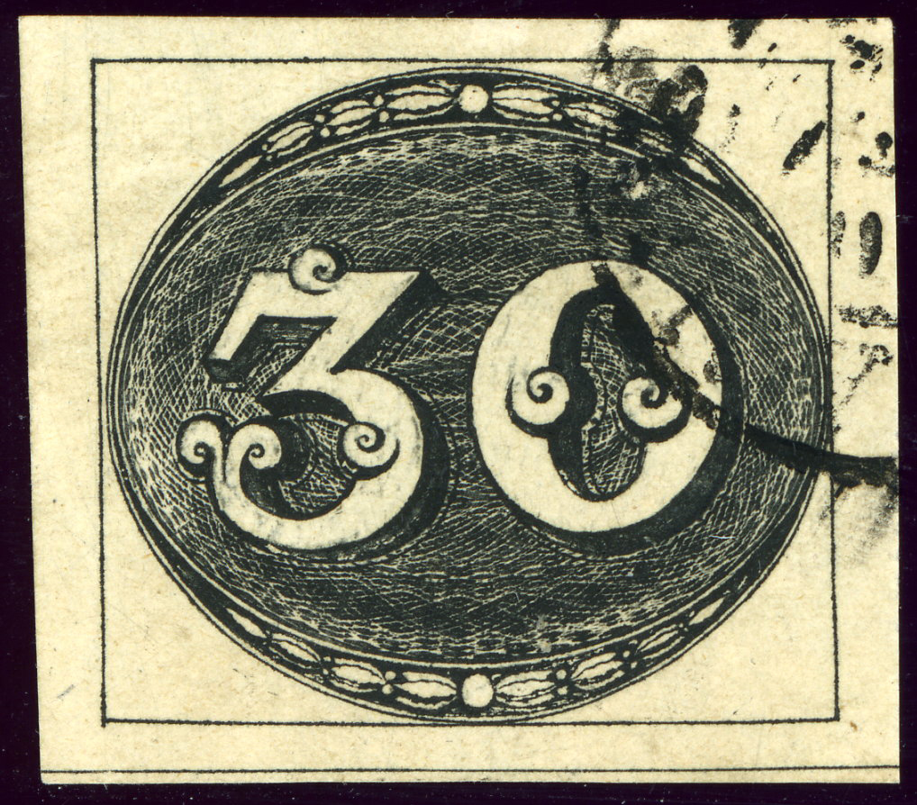 First issue of Empire of Brazil in 1843, 30 reis, "Bull's Eye"